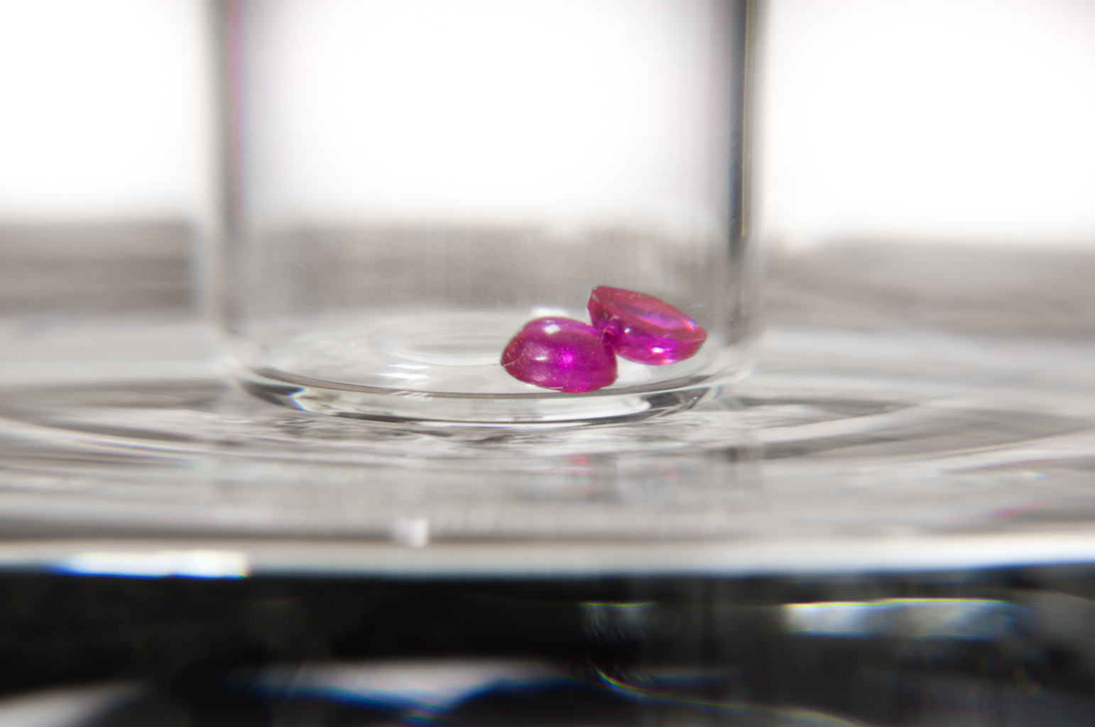 Artificial ruby hemisphere under a normal light (fluorescent lamp). φ=3mm